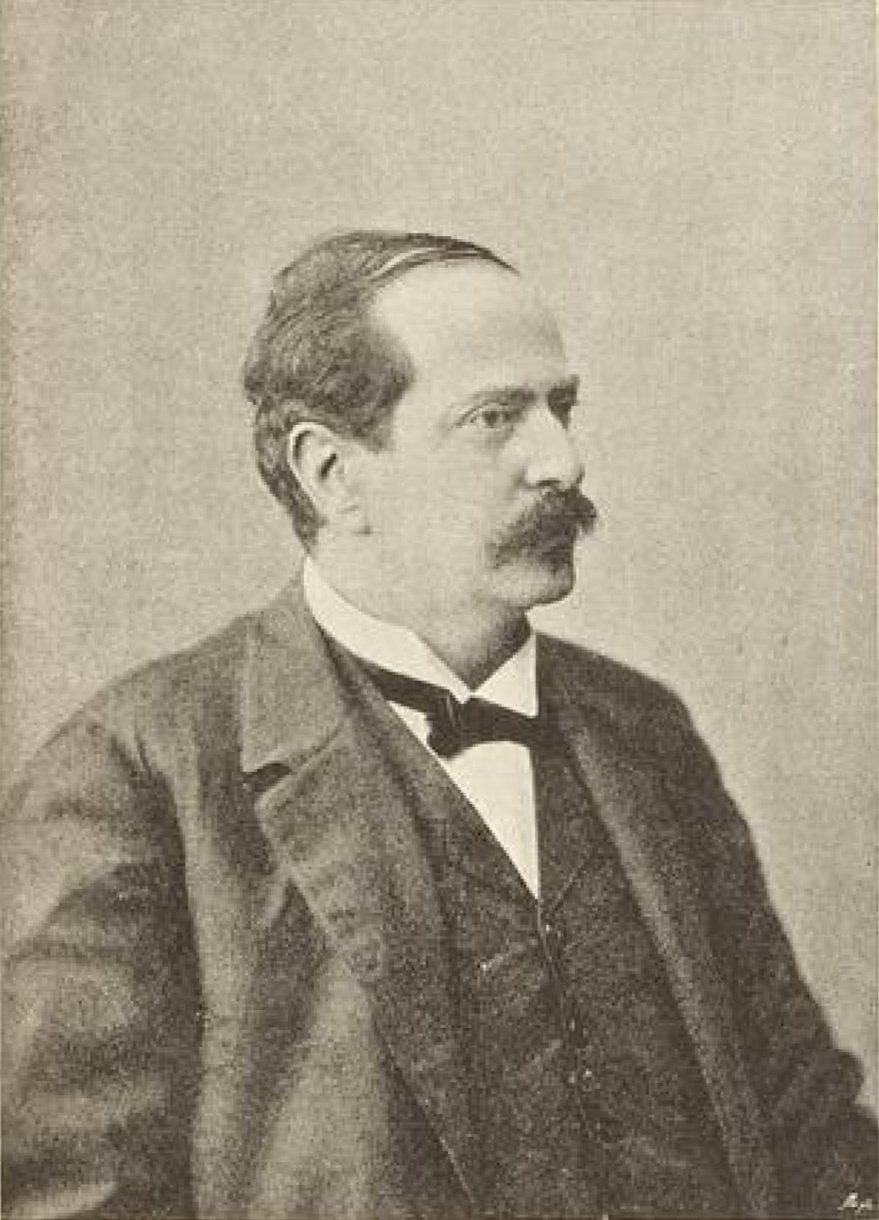 Karl Emil Franzos (1848-1904), Austrian writer and publisher